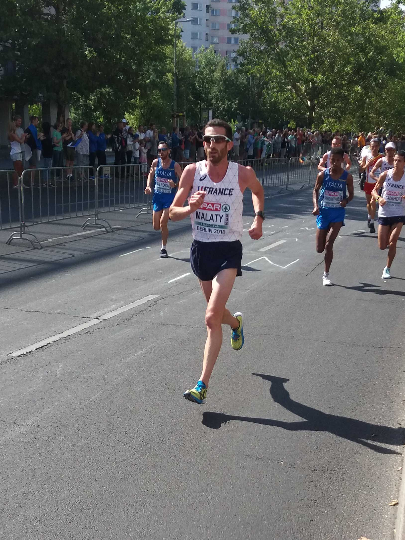 Marathon at the 2018 European Athletics Championships – Benjamin Malaty